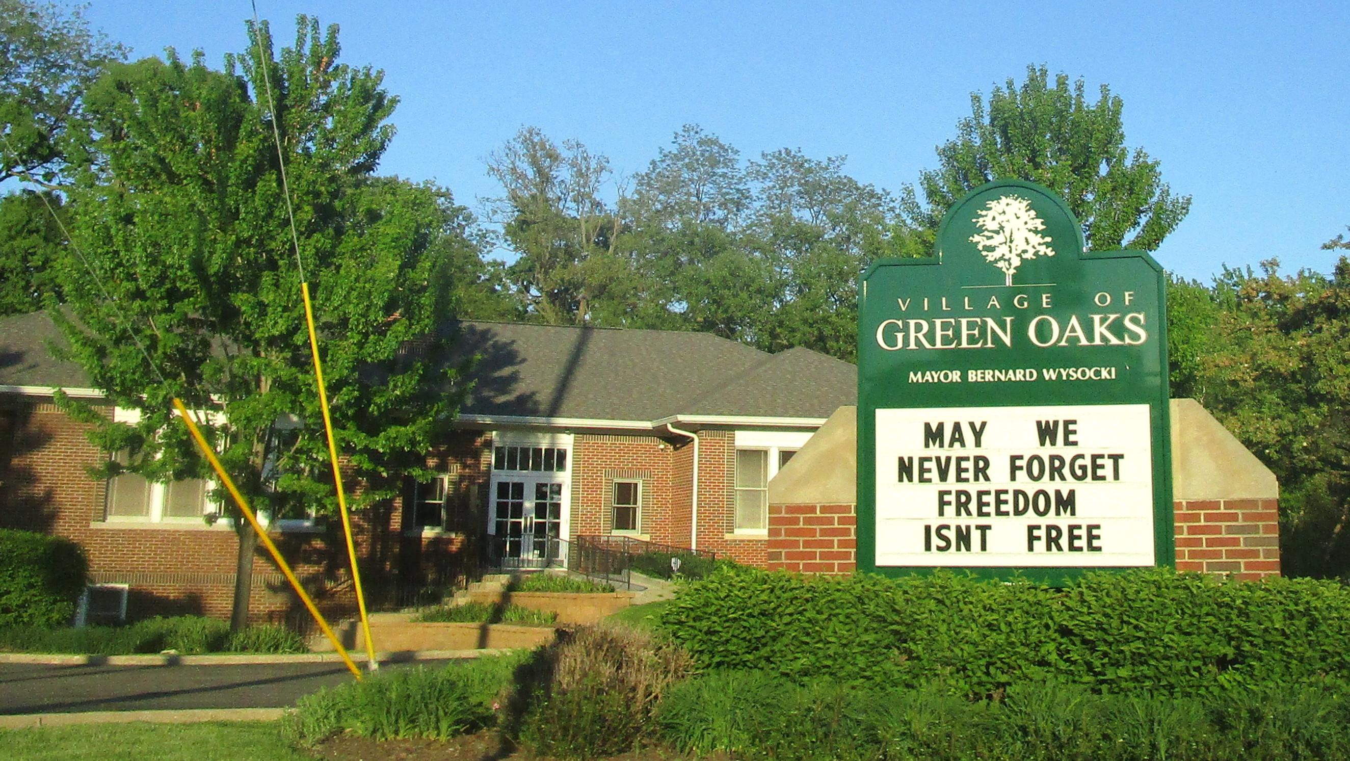 Sign when entering the administrative offices of the Village of Green Oaks